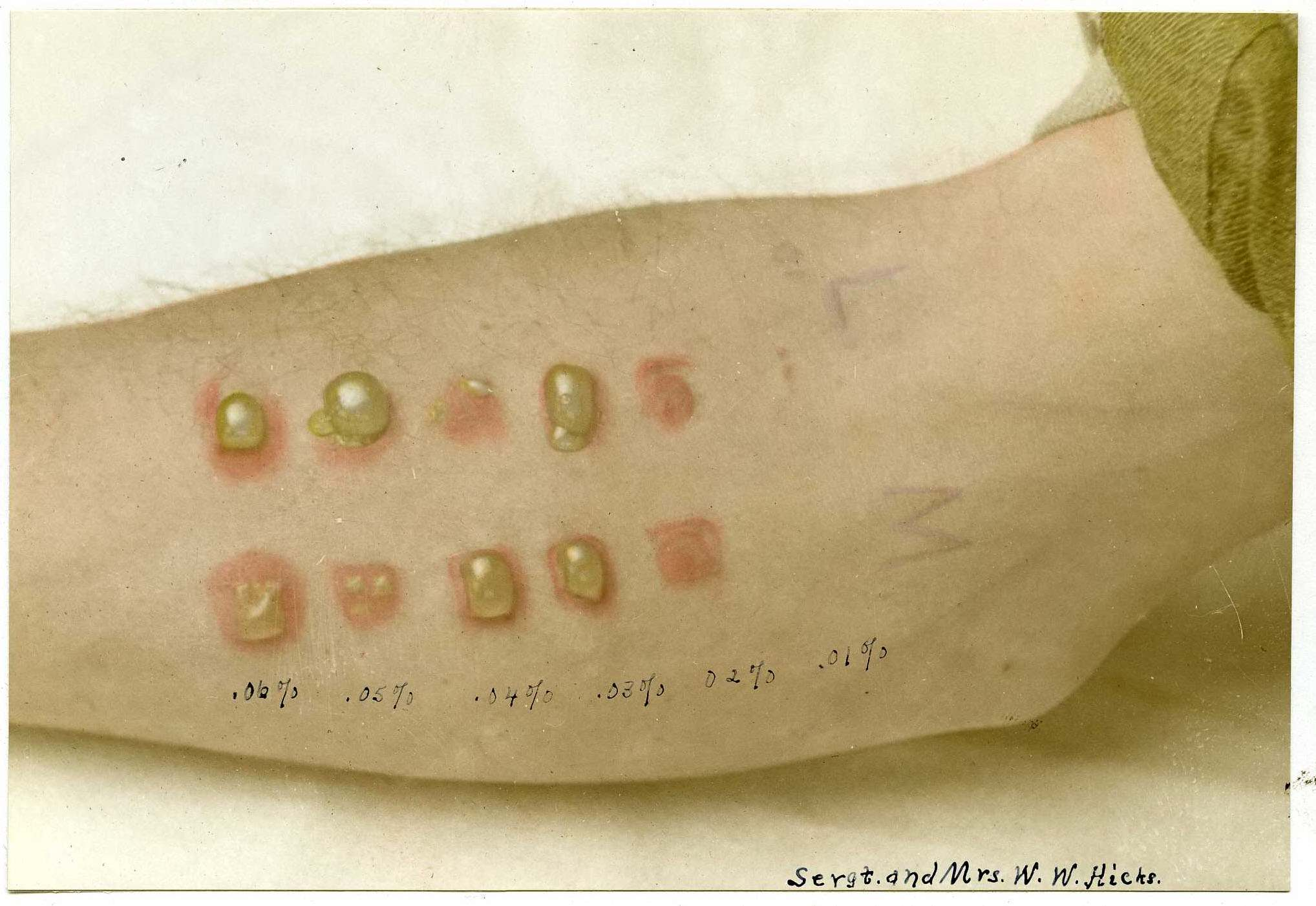 Mustard gas (Yperite) tests during the First World War by application to the skin of forearm